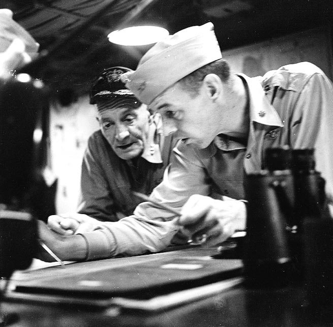 Vice Admiral John S. McCain, Sr., Commander, Task Force 38, and Commander John S. Thach, USN, Task Force 38 Operations Officer, are working on operations plans in the Flag Plot spaces on board USS Hancock (CV-19), circa November 1944-January 1945. Removed caption read: Photo # 80-G-308561 VAdm. J.S. McCain & Cdr. J.S. Thach, 1945